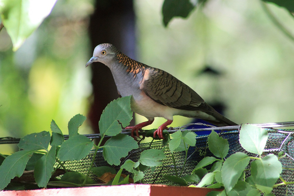 Bar-Shouldered Dove - Home Garden - Darwin - Northern Territory - Australia